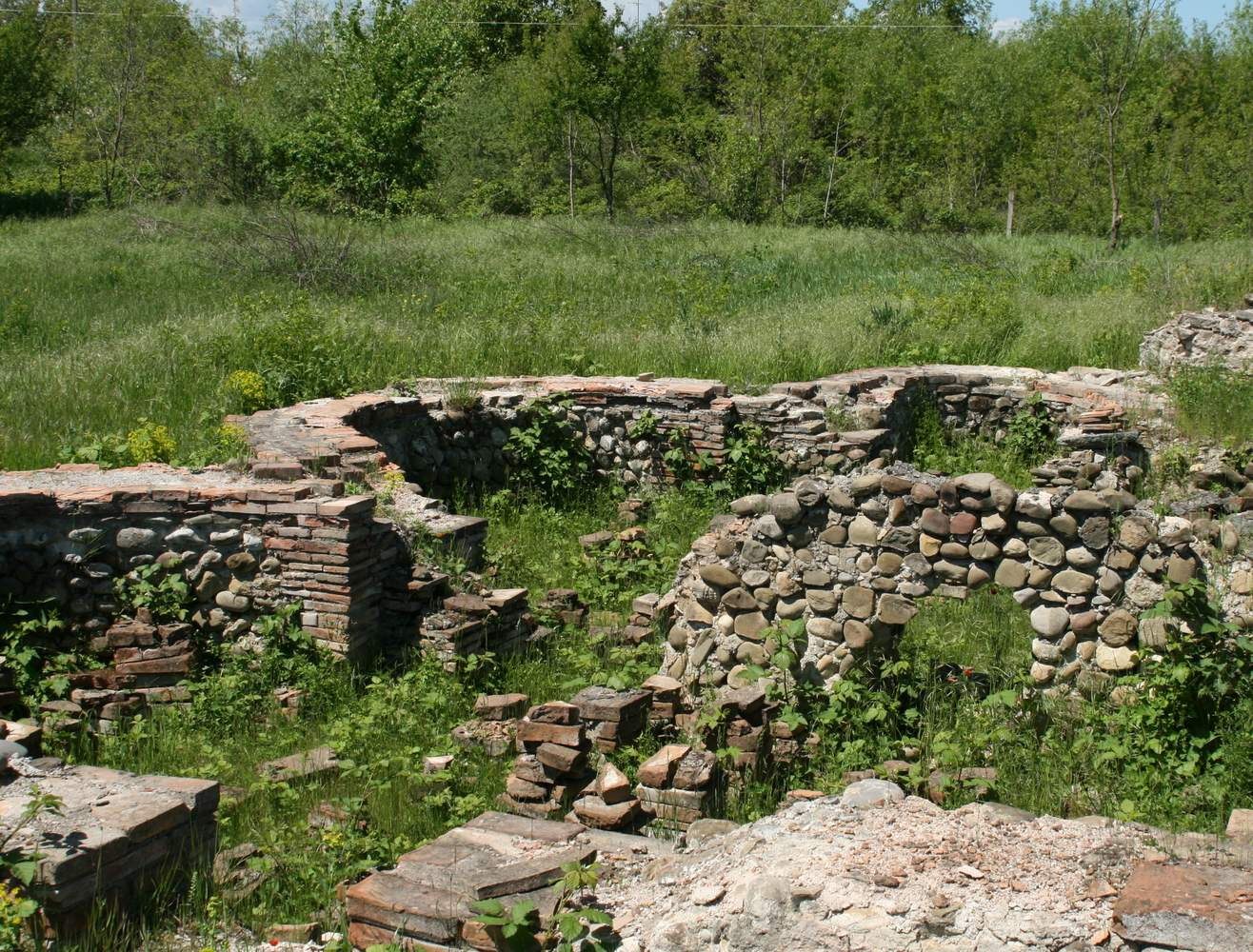 Dzalisi ruins